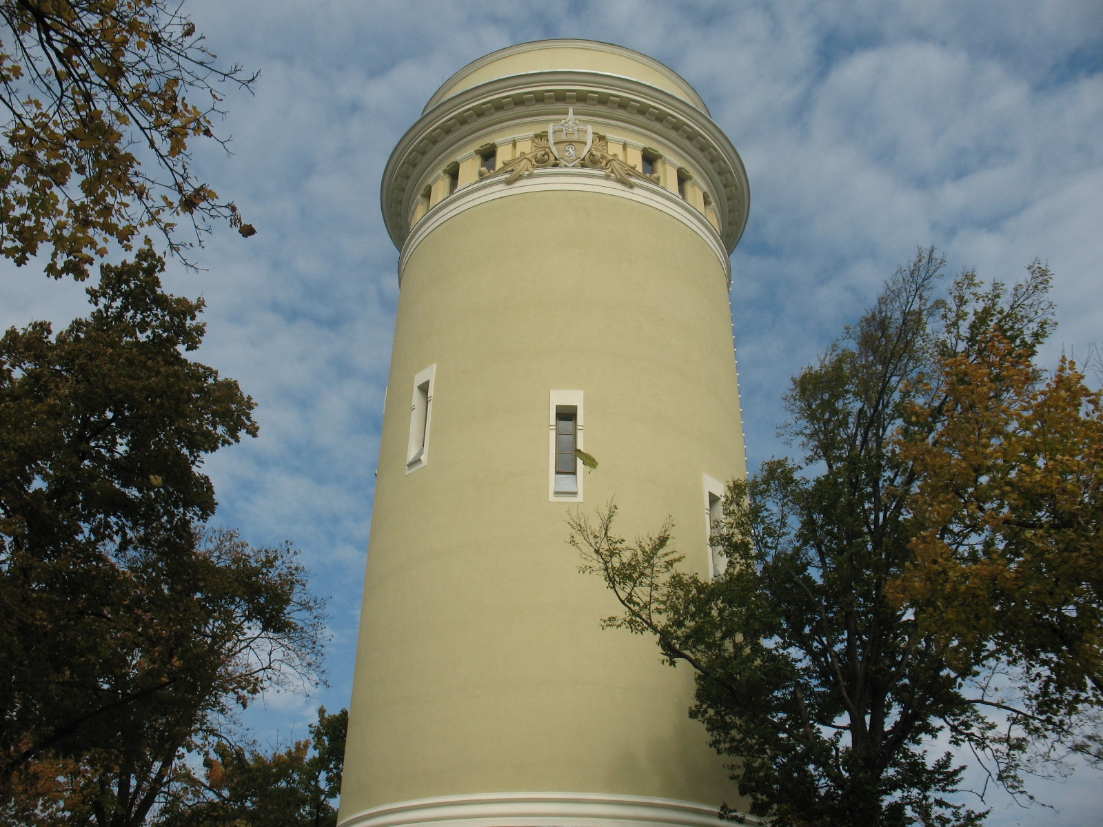 Piotrków Trybunalski, Water tower.